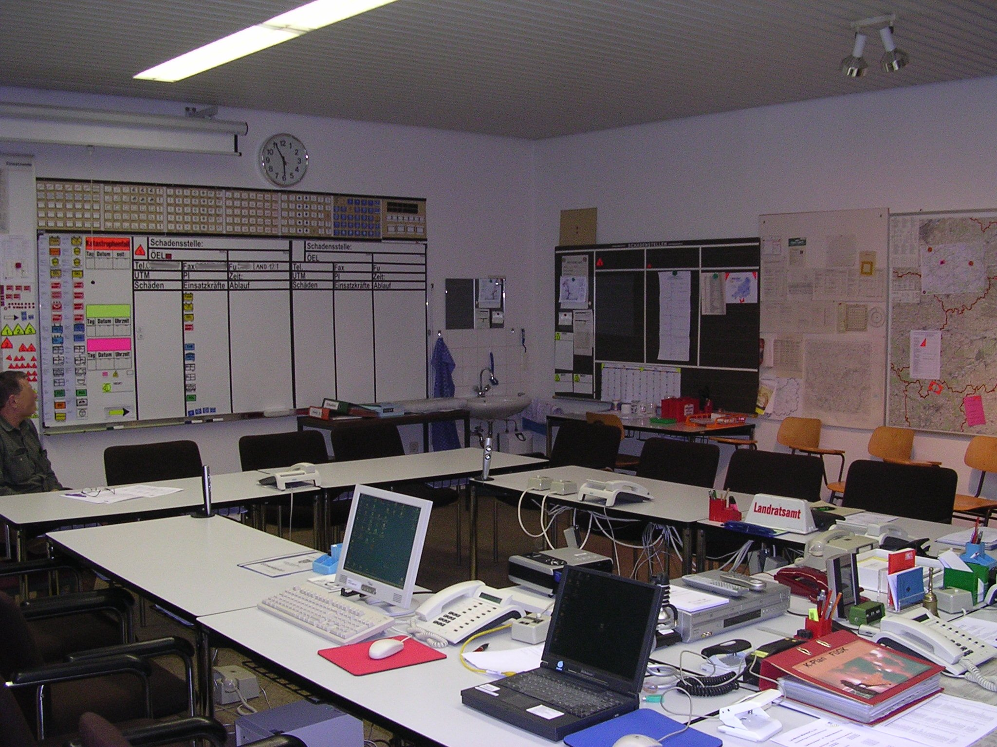 Interior of emergency management room in county of Mühldorf am Inn (Germany/Bavaria)